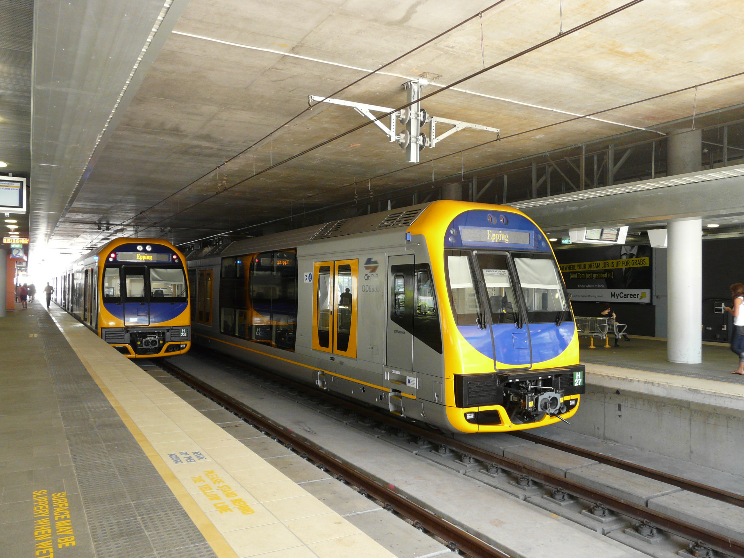 A pair of 4 car Oscar sets at Chatswood station operating the new Chatswood-Epping rail link.